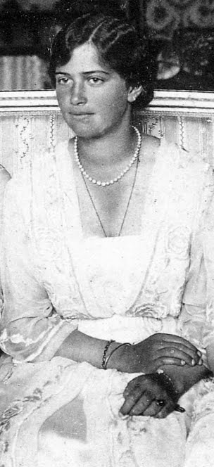 This is a cropped version of an official portrait of Grand Duchess Maria Nikolaevna of Russia and her sisters in 1916. It is from . I think it is most likely in the public domain due to its age.